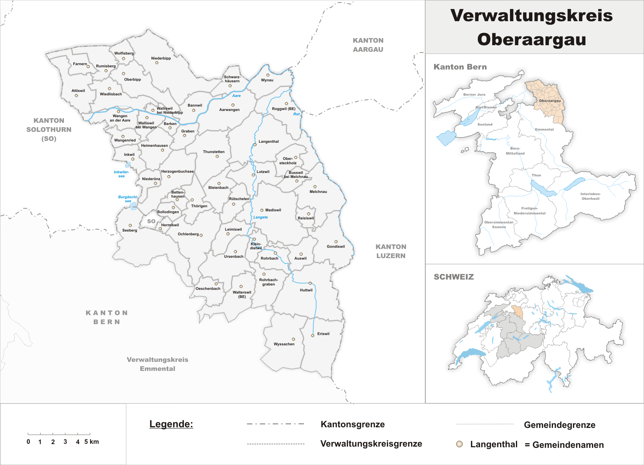 Municipalities in the district of Oberaargau